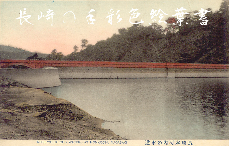 Japanese hand tinted postcard showing the reservoir of the Nagasaki waterworks at Honkochi